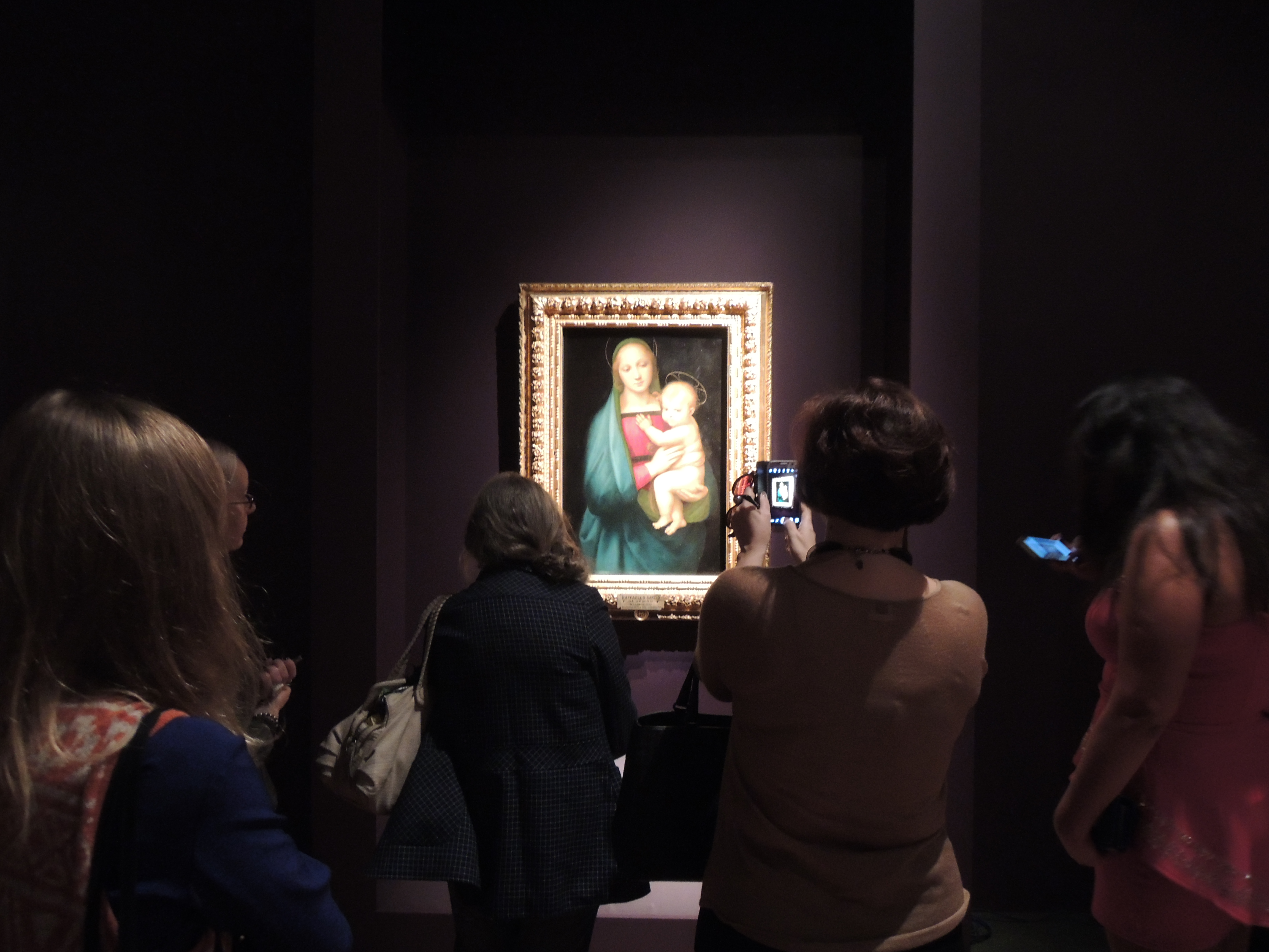 see filename My photo of PD-Art